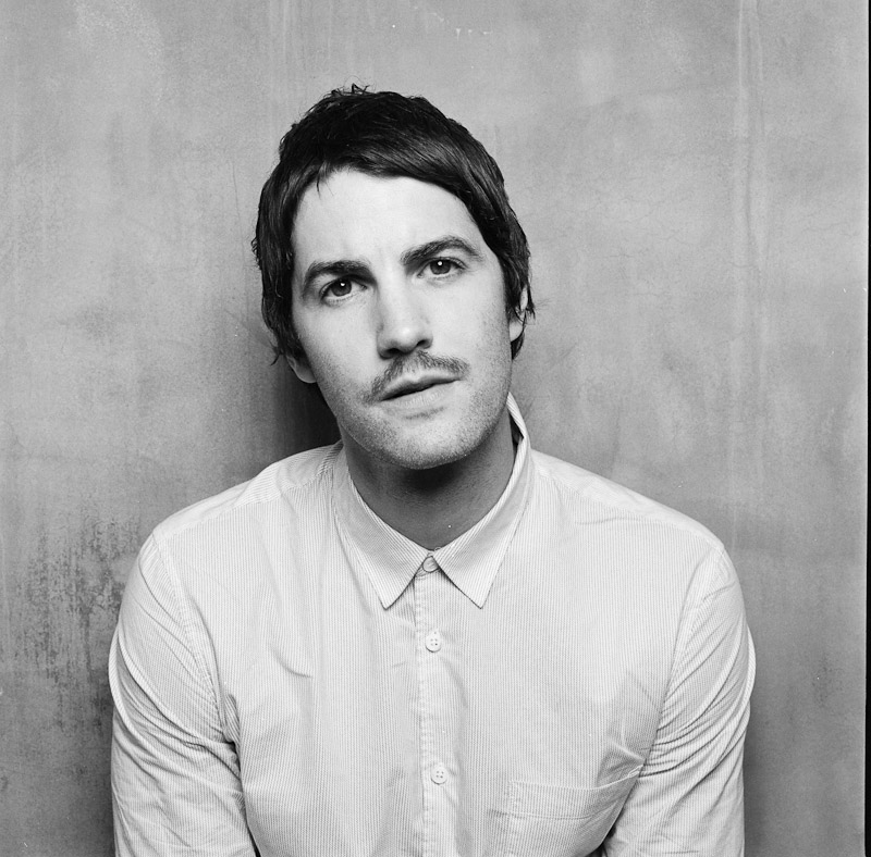 Jim Sturgess